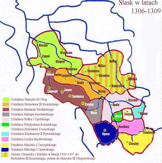 Map of Silesia 1306-1309